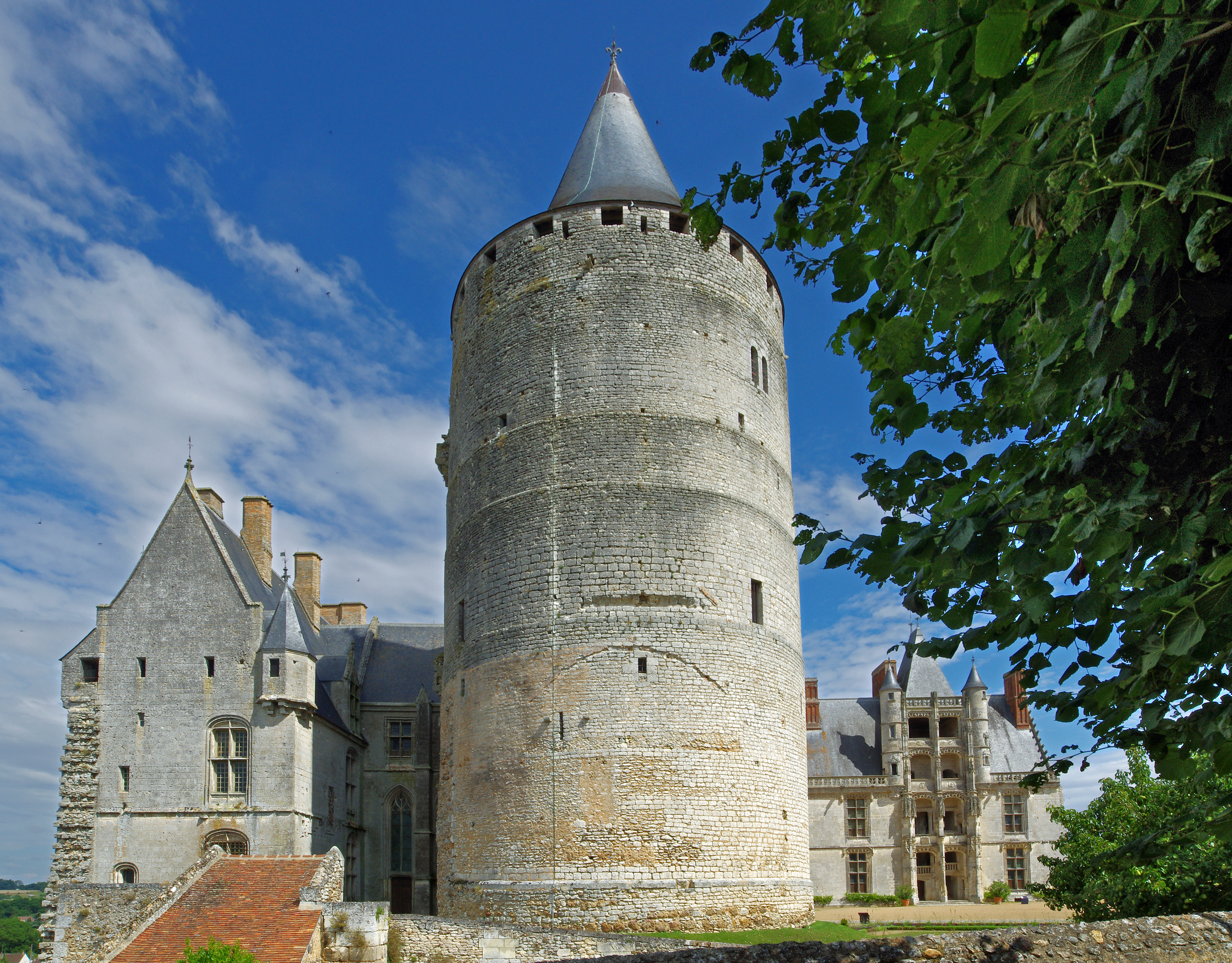 Châteaudun (Eure-et-Loir) The great tower or keep was built in the late twelfth century by Thibaud V. This is the only part of the original castle of the Counts of Blois. The tower was covered by a conical roof in 1450 by Dunois. This is one of the best preserved of France dungeon.The basement of the tower served as a prison during the Revolution. Right, Longueville wing is built under François II de Longueville, grand-son of Dunois, from 1510. The great Renaissance staircase, built in the northwest corner, is covered with a high roof and flanked by two turrets. The staircase is inspired by the Italian Quattrocento. Left, Dunois wing of the fifteenth century.